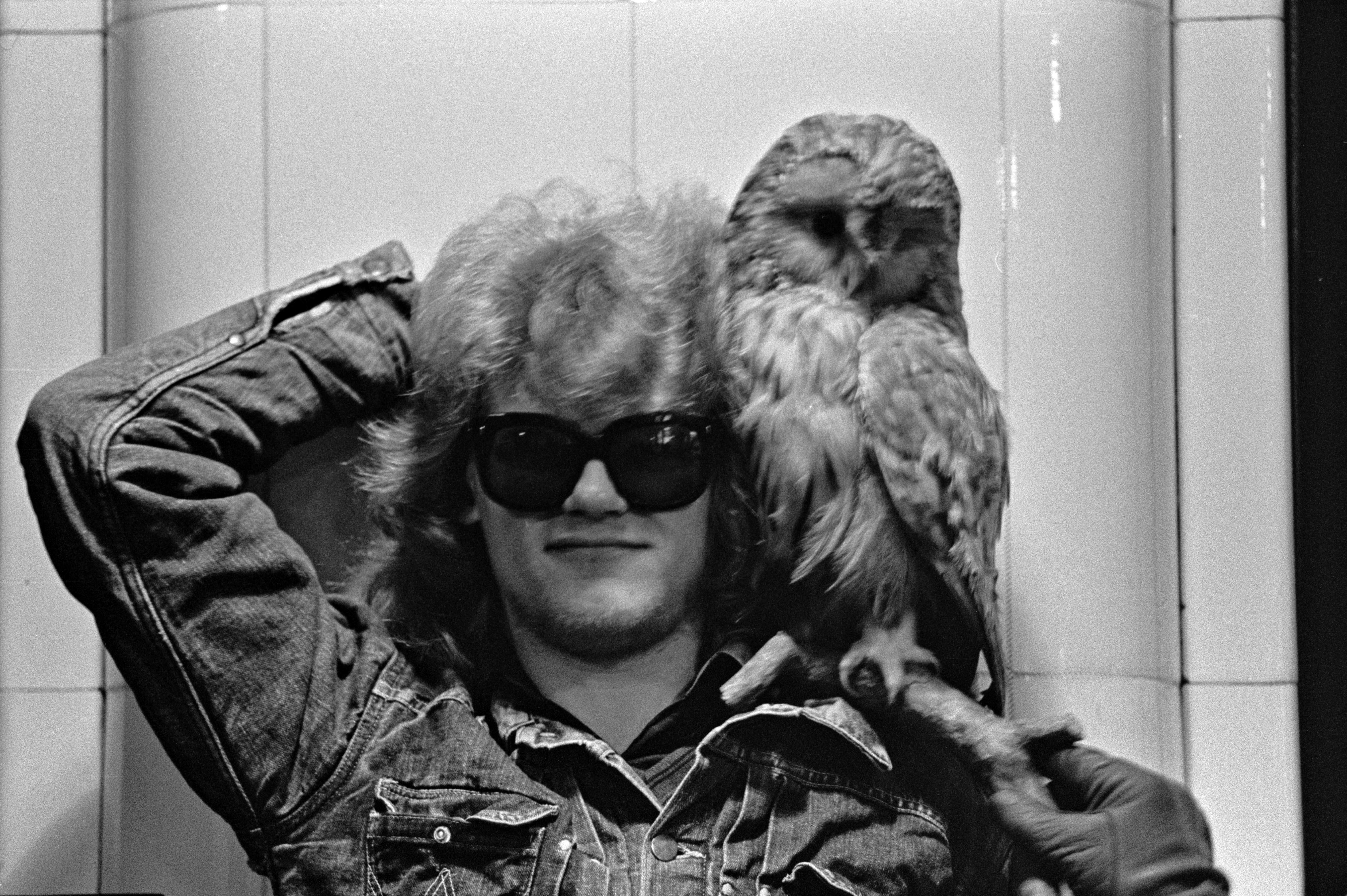 Albert Järvinen, the Finnish guitarist, with an owl in Kruununhaka, Helsinki, Finland in the early 1970s.